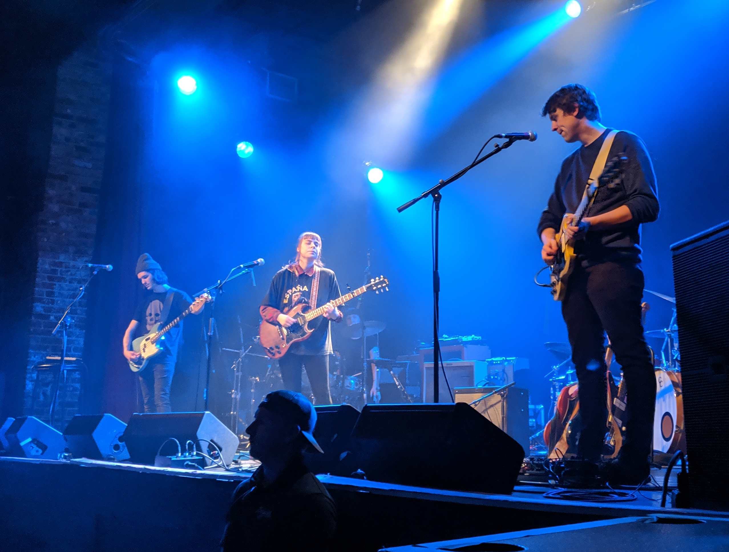 Taken during a concert at Bogart's on May 22, 2019. Smoke Parade, Casper Skulls, and Ratboys were the opening acts and PUP was the headlining act.